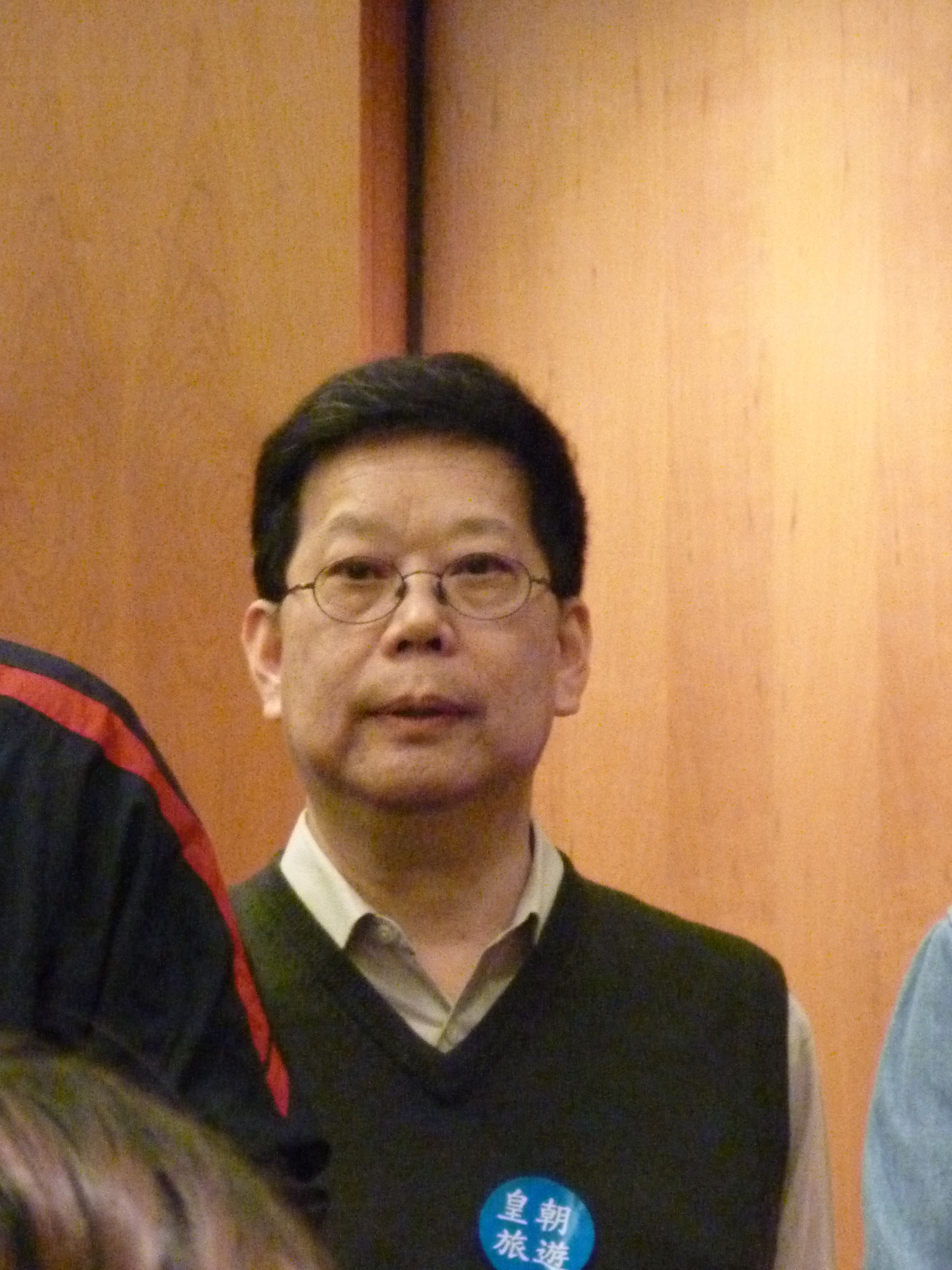 Sung Lap-kung (08 Dec 2013, Noah’s Ark Park Hong Kong) 中文（香港）: 宋立功 (08 Dec 2013, 香港馬灣挪亞方舟公園)